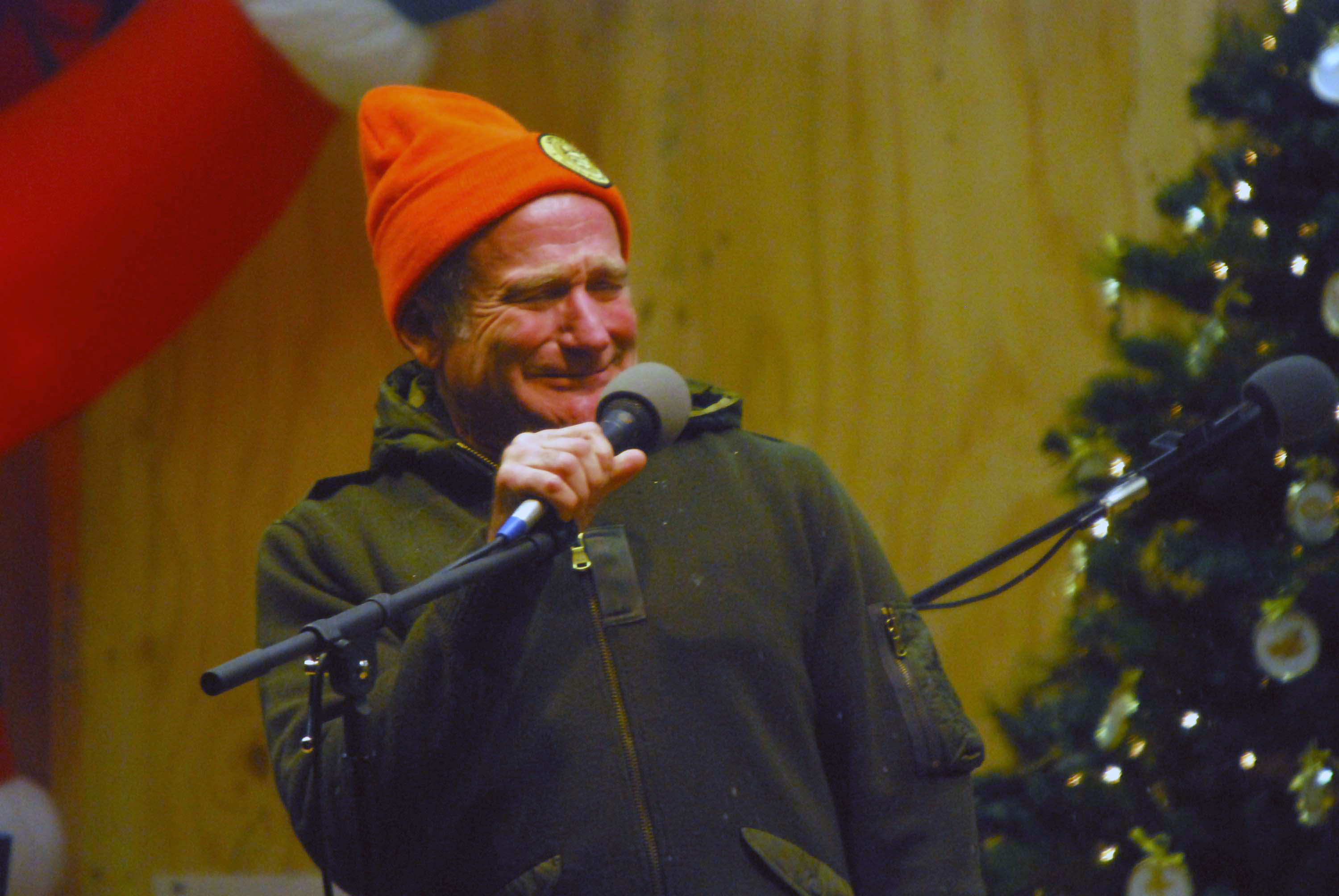 071220-M-9719V-185 KUBAL, Afghanistan (Dec. 20, 2007) Robin Williams performs for military men and women as part of a United Service Organization (USO) show on board Camp Phoenix.